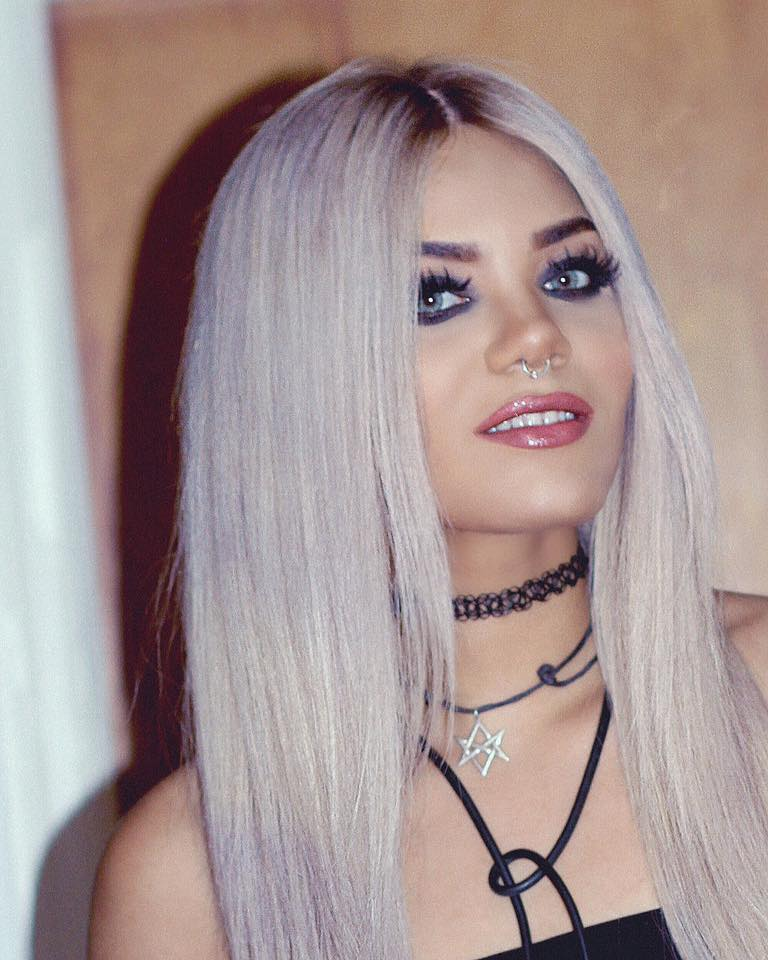 Alt Rock Singer Samantha Scarlette July 2017